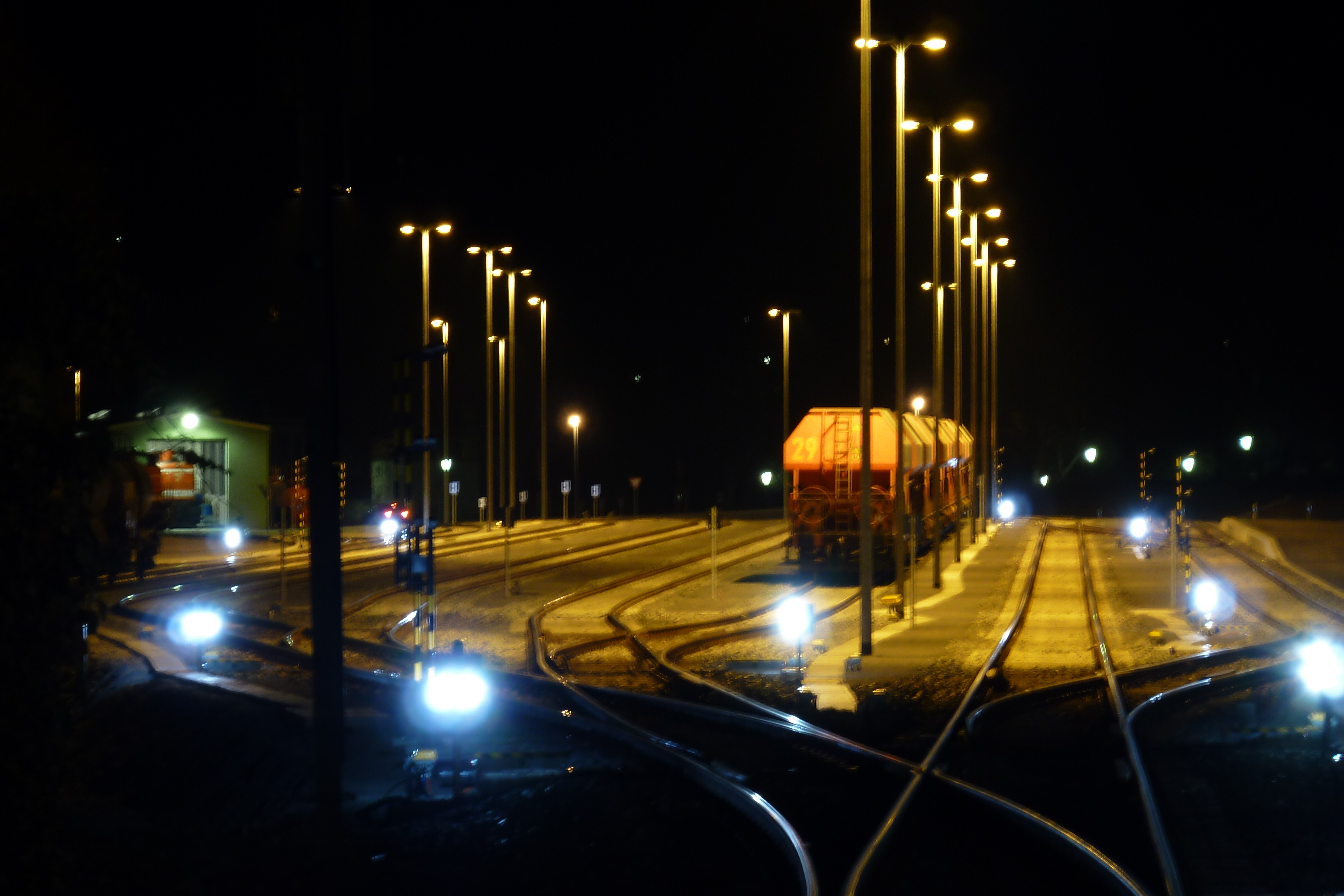 The goods station in Warstein, Germany at night.